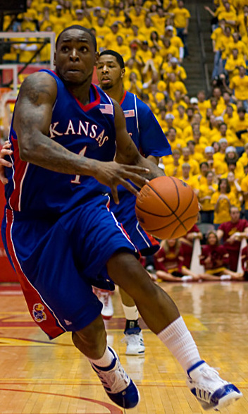 Sherron Collins for Kansas Jayhawks vs. Iowa State University on January 24, 2009.